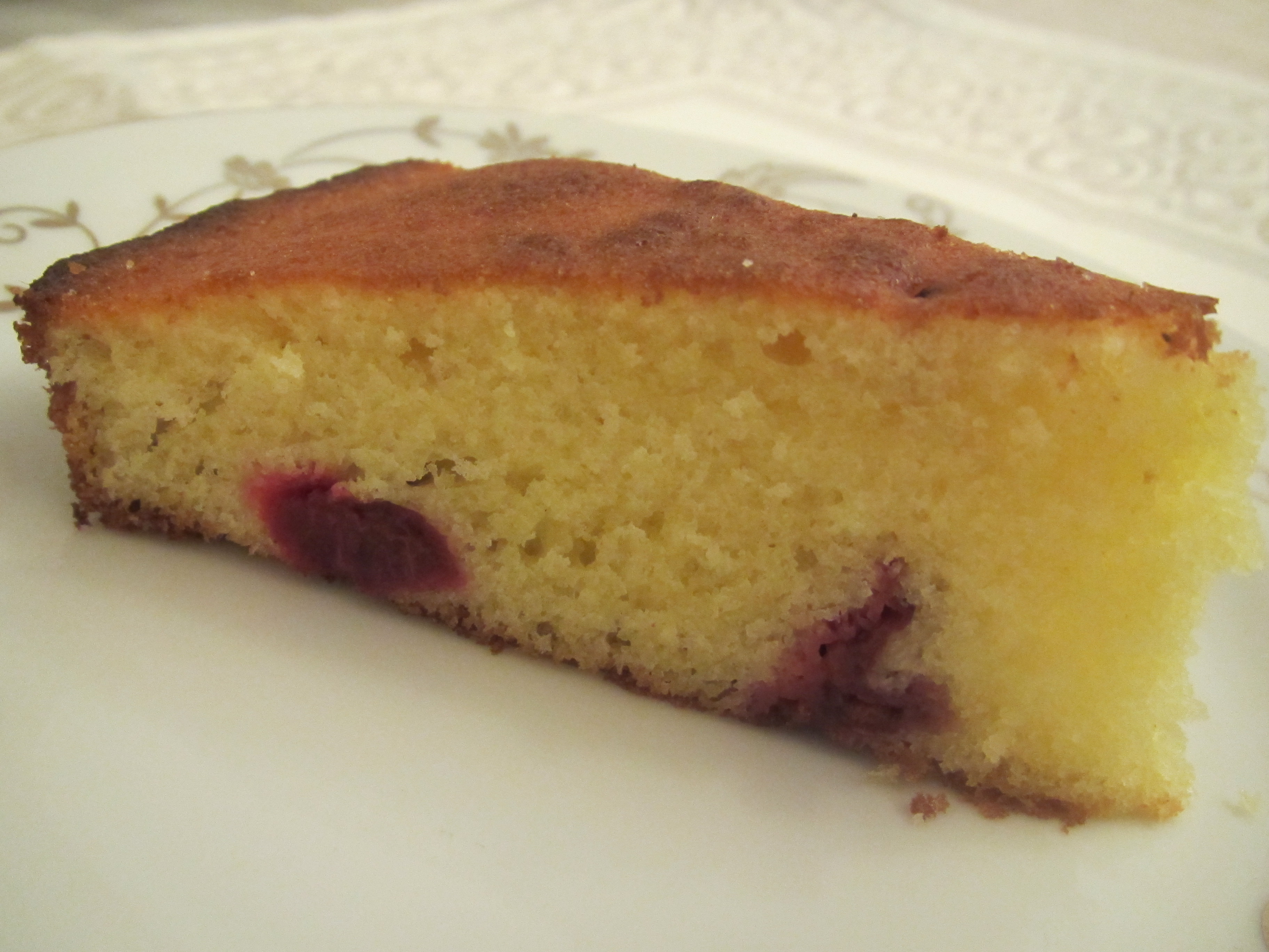 Chery cakesAzərbaycanca: Albalı piroq